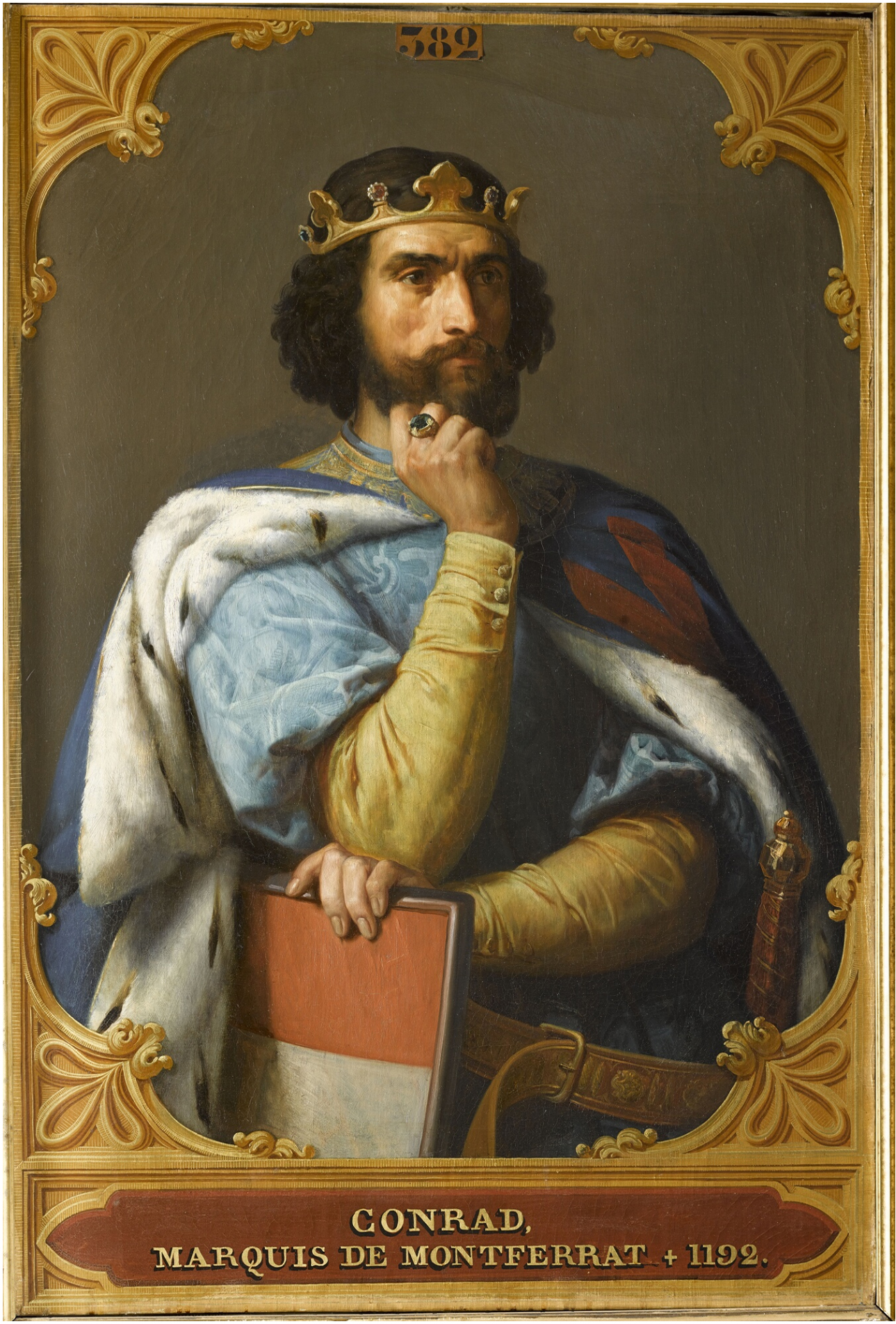 King Conrad I of Jerusalem